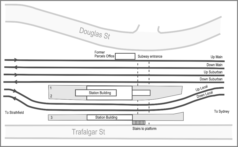 map and plan of Stanmore Station, Sydney